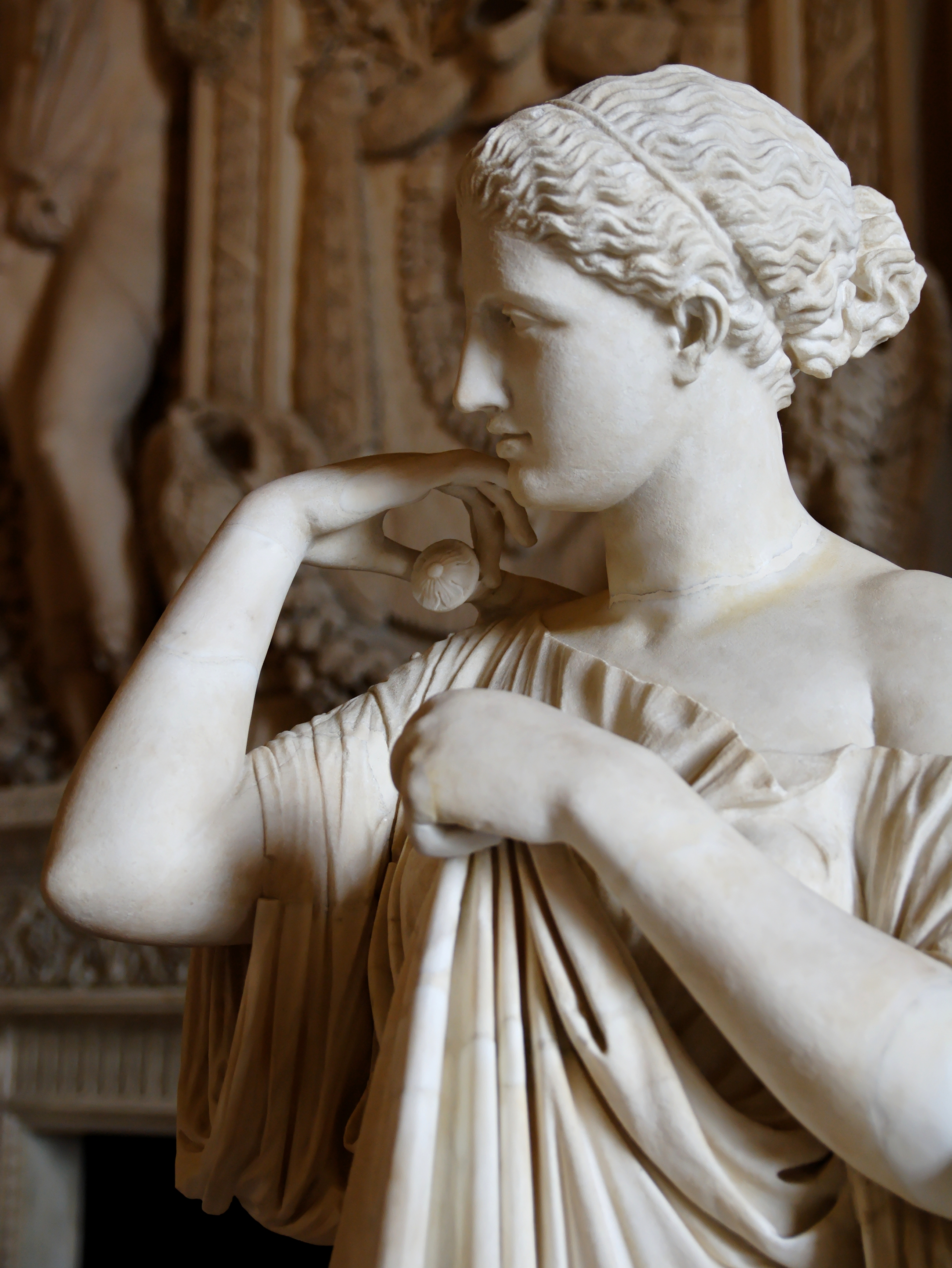 So-called Artemis of Gabii, detail. Marble, Roman copy of the reign of Tiberius (14-37 CE) after a Greek original traditionnally attributed to Praxiteles. Found in 1792 by Gavin Hamilton at Gabii, Italy.